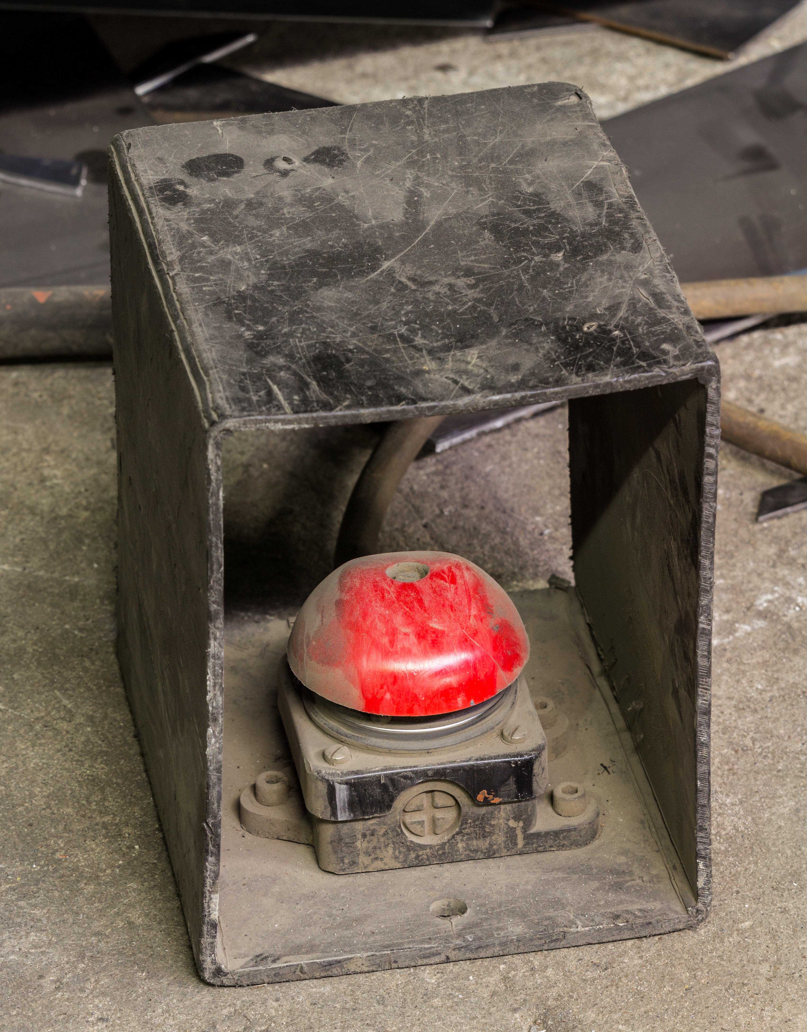 Emergency stop button, tool shed of the Quarzwerke in Sythen, Haltern, North Rhine-Westphalia, Germany